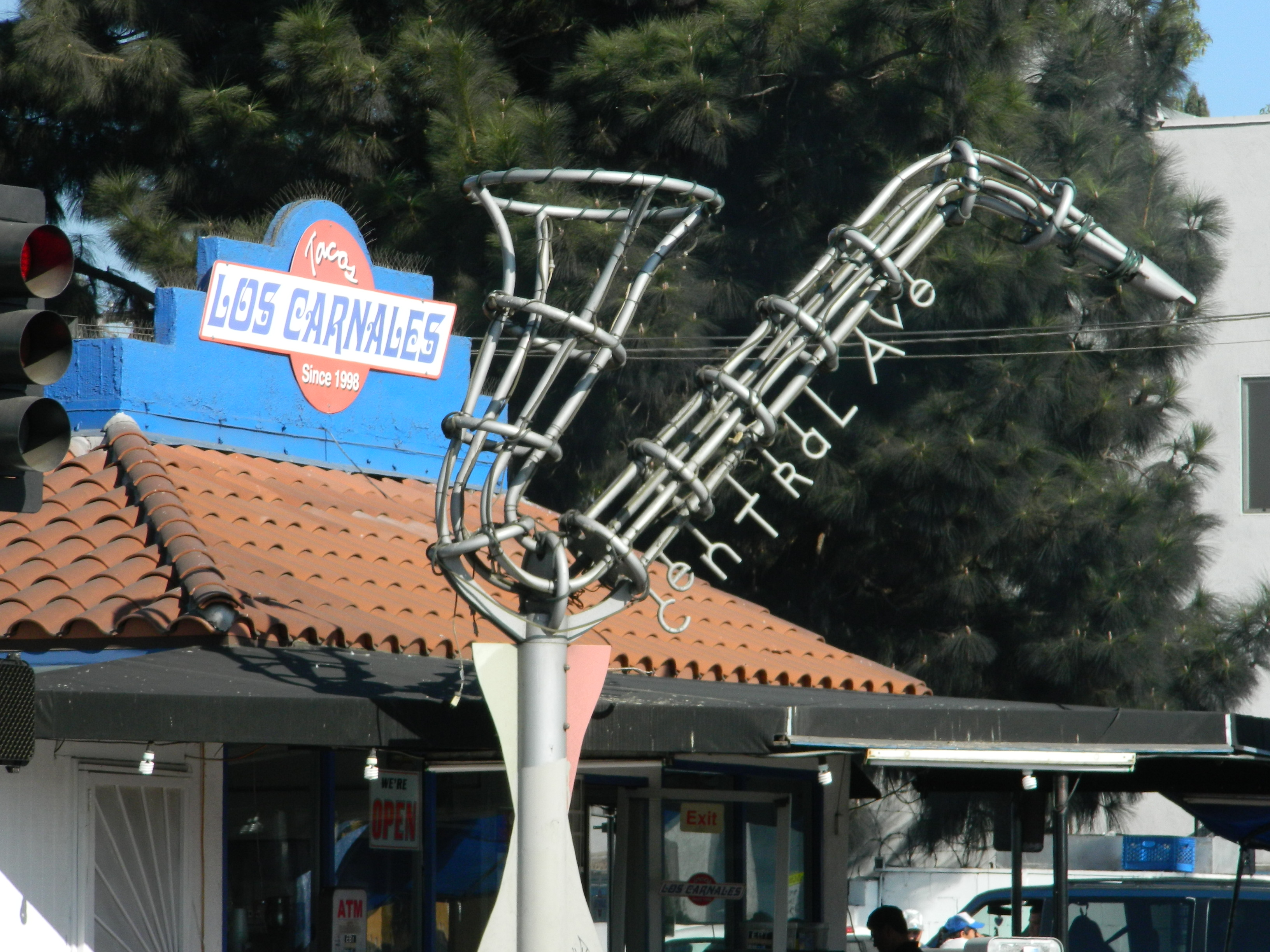 Category:Images of Los Angeles, California